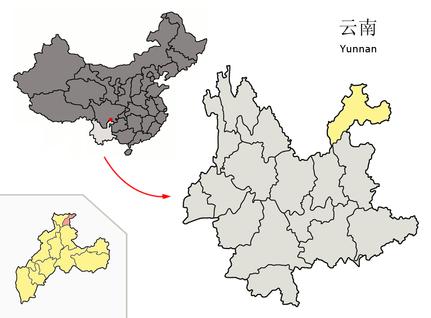 Location of Shuifu County (pink) and Zhaotong Prefecture (yellow) within Yunnan province of China Map drawn in september 2007 using various sources, mainly : Yunnan province administrative regions GIS data: 1:1M, County level, 1990 Yunnan Counties map from Zhaotong Prefecture administrative map from .au